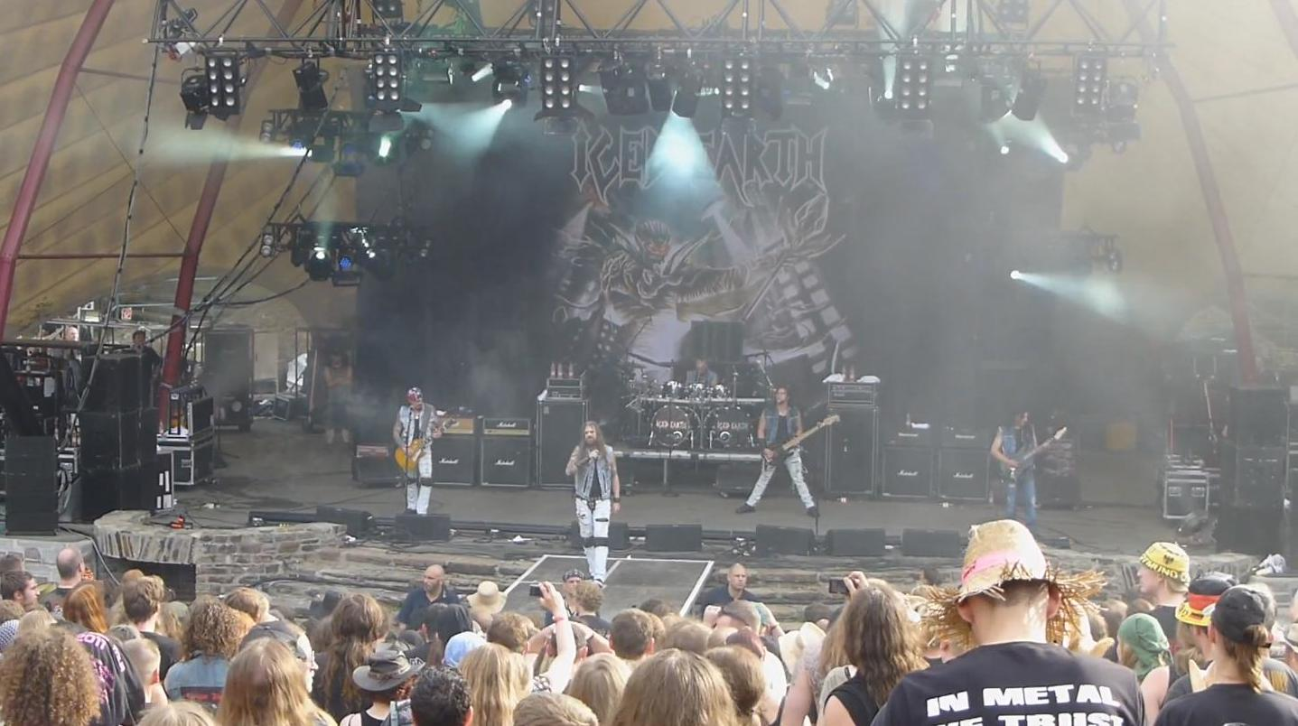 Iced Earth performing at Metalfest 2013.